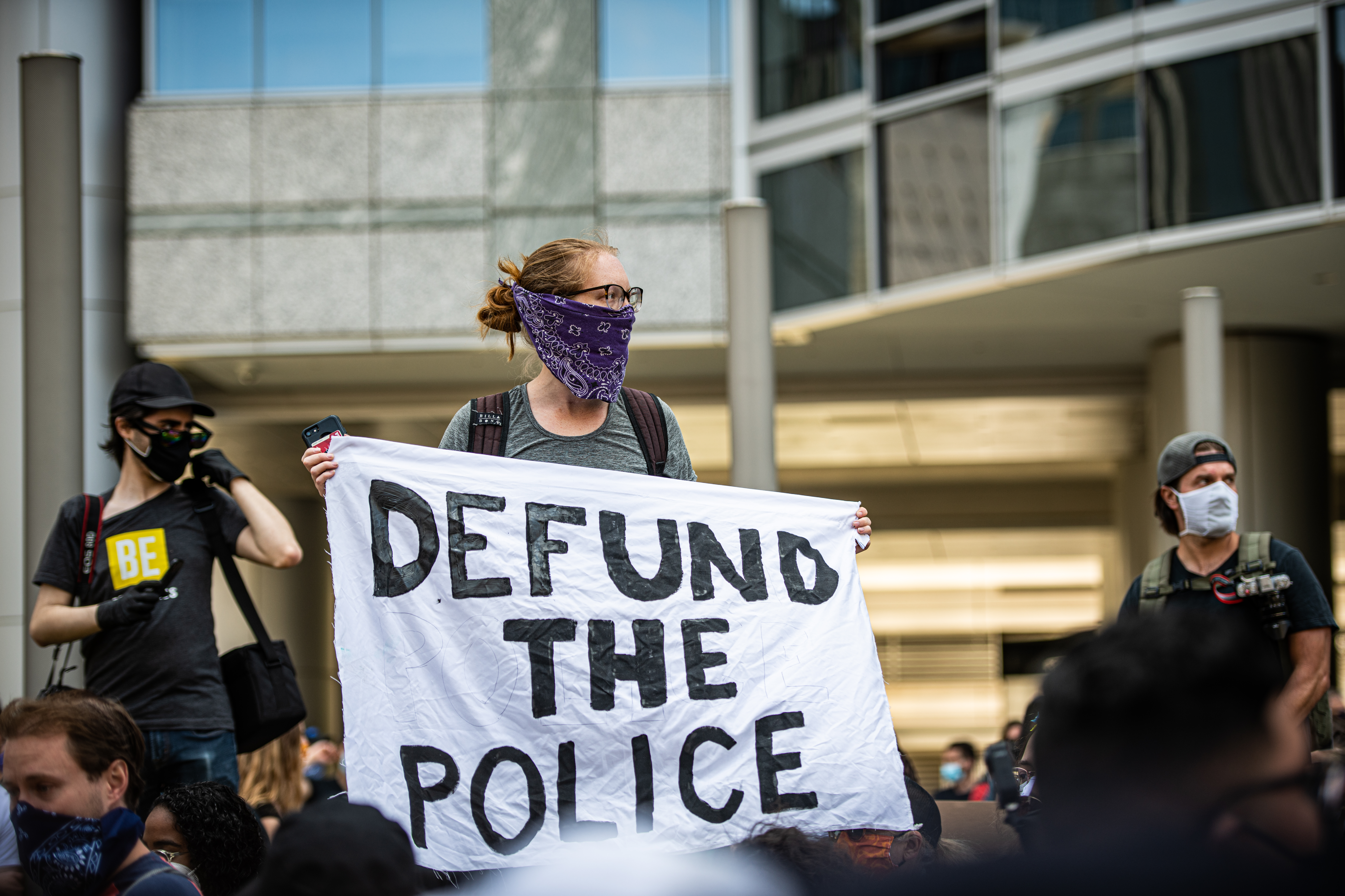 Black Lives Matter - Century City Protest - June 6, 2020